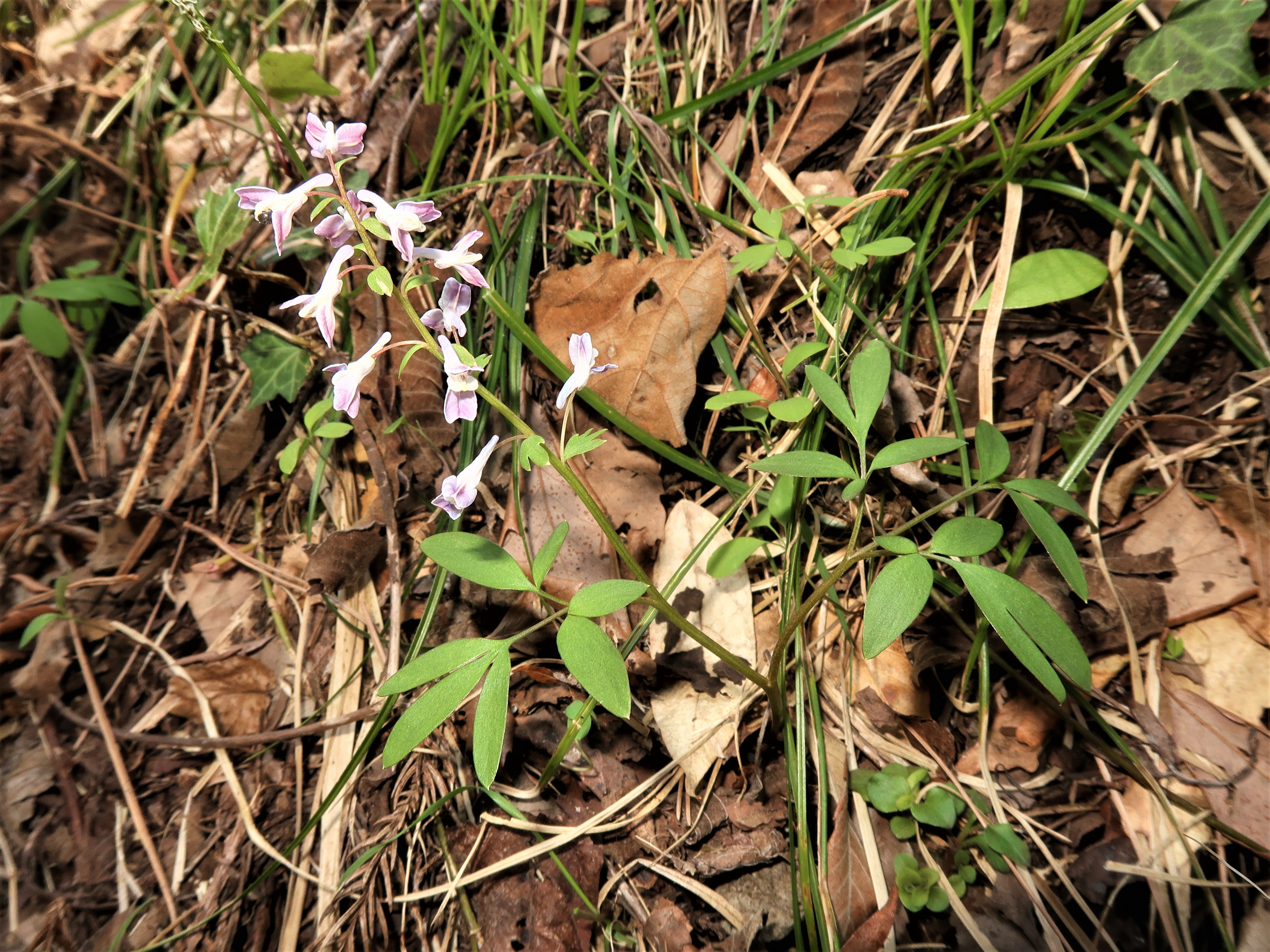 Corydalis capillipes, Aizu area, Fukushima pref., Japan